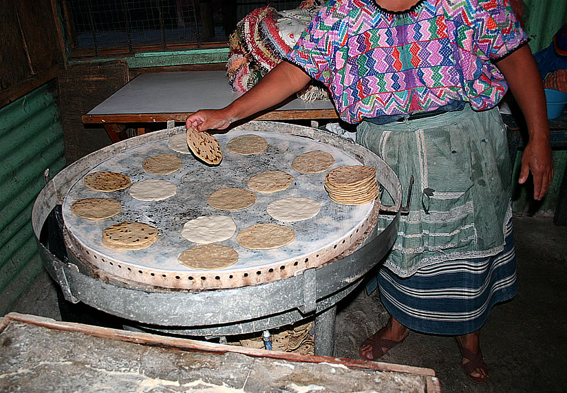 A woman cooking tortillas on a large comal in Guatemala.